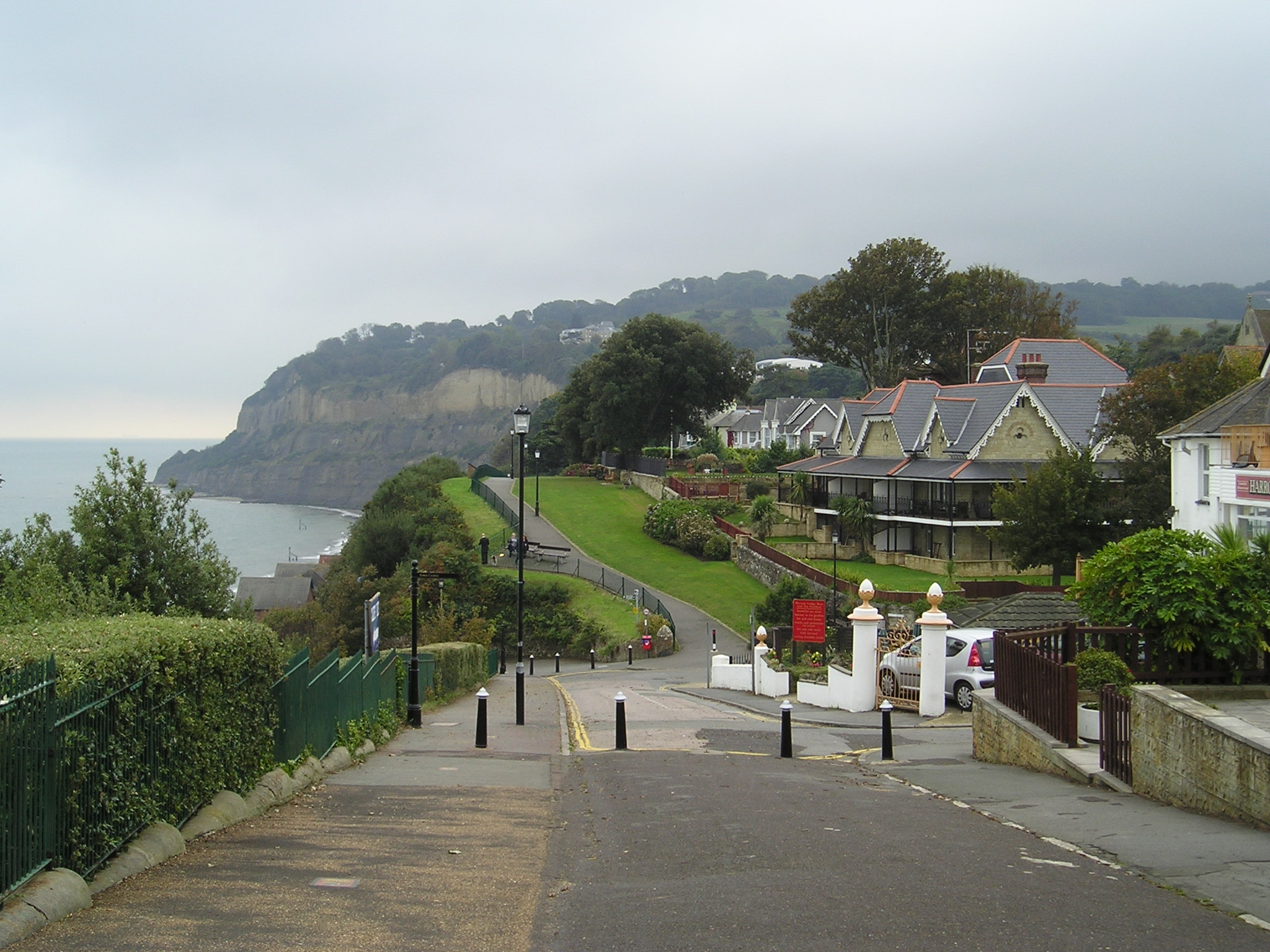 Shanklin, Isle of Wight